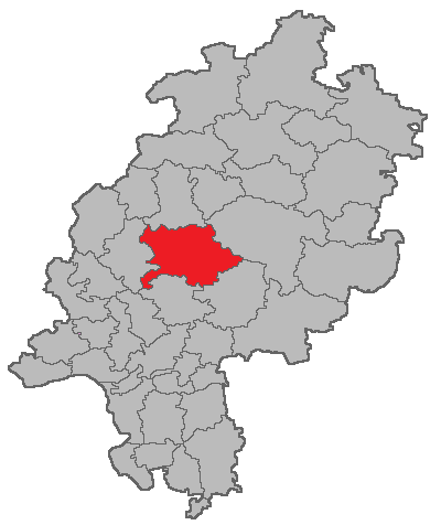 Map of the district court Giessen in Hesse